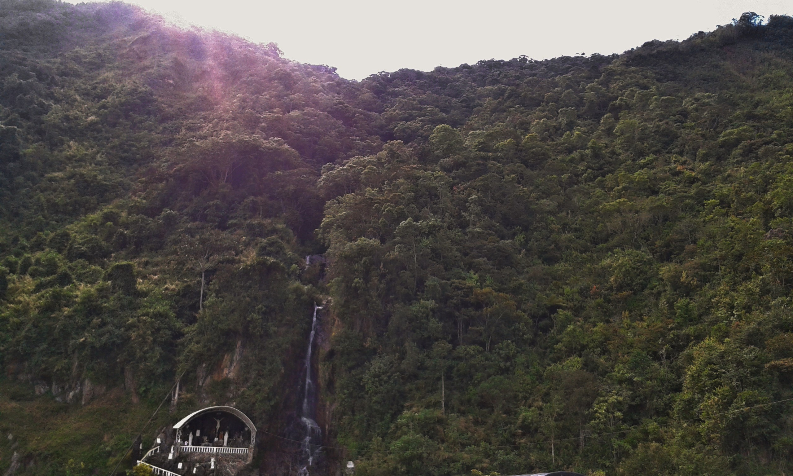 Reserva La Sierra, Calvario y una de las cascadas de Palenque, Santa Rosa de Osos